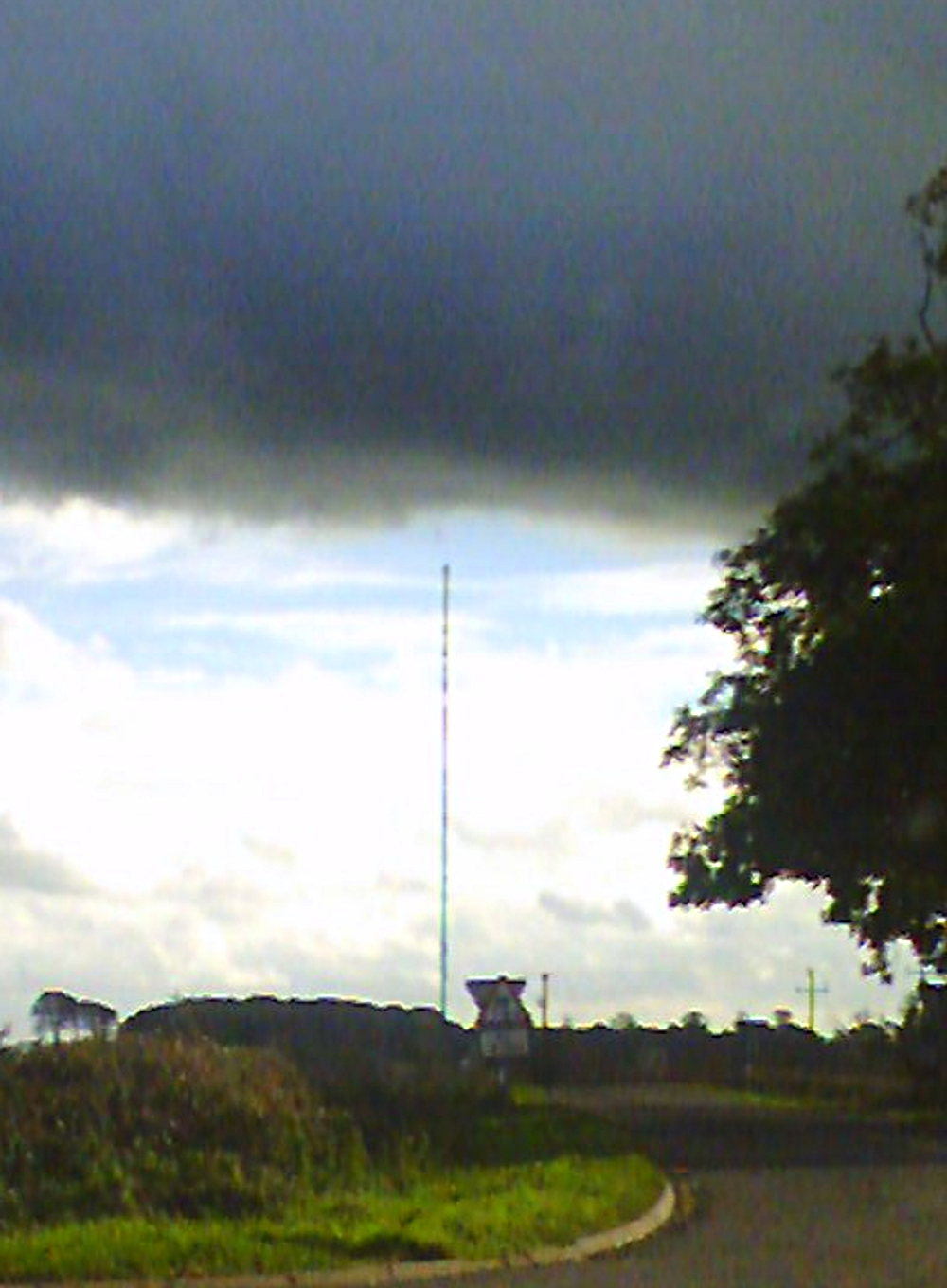 Belmont Transmitter, Lincolnshire